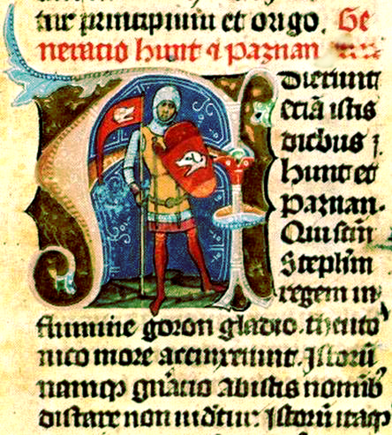 Knight Hunt in the Chronicon pictum (Illustrated Chronicle)